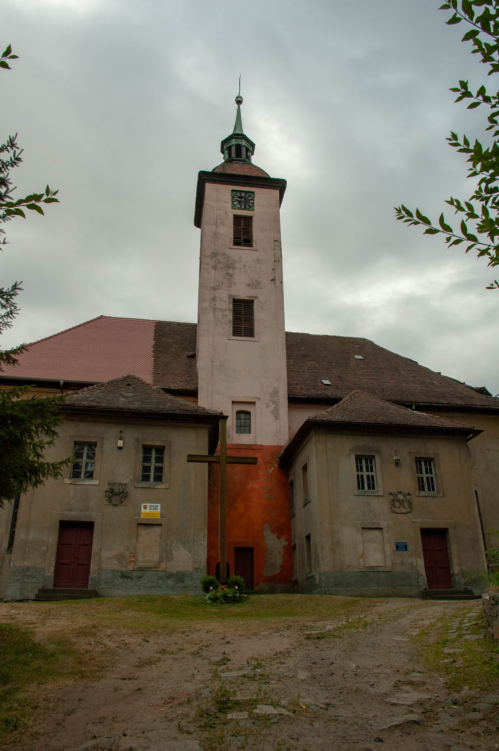 This photograph was created as a part of Wikiexpedition Lower Silesia, a project supported by Wikimedia Poland grant.